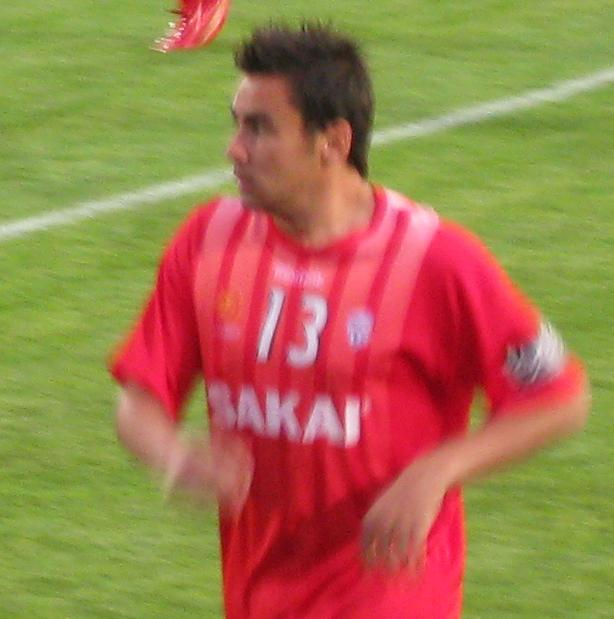 Travis Dodd warming up before an Adelaide United game on the 27 September 2008 at Hindmarsh Stadium.